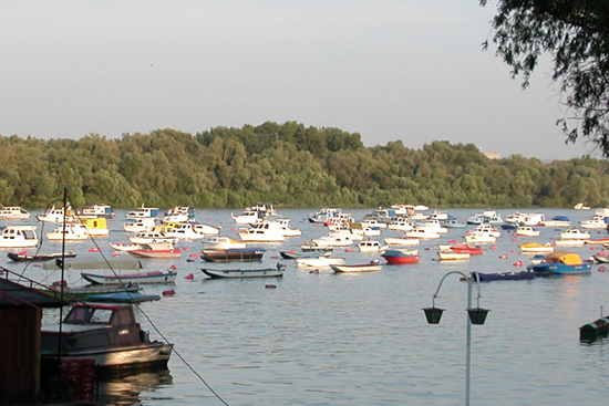 Boats on the river Danube, Zemun, Serbia.